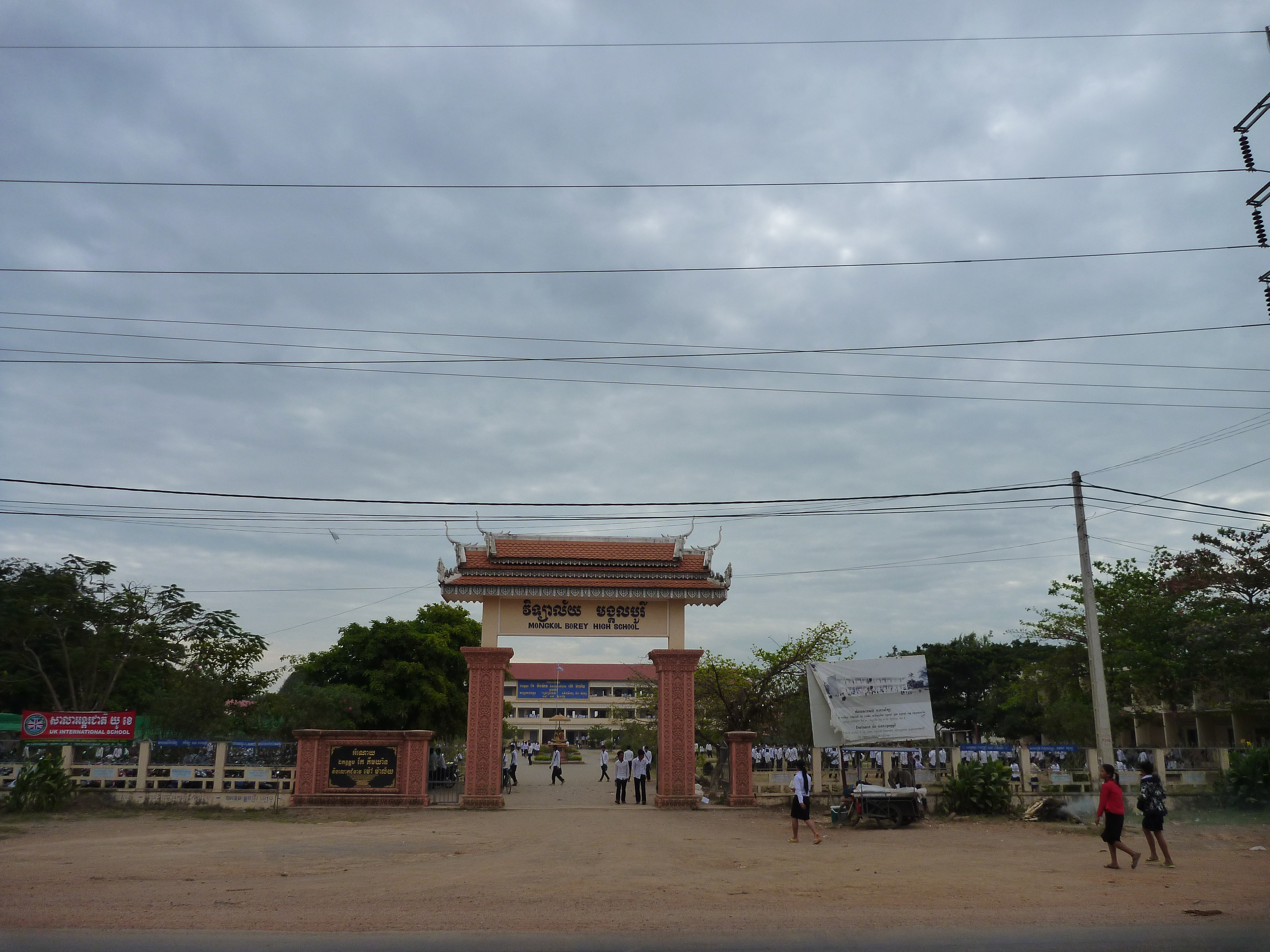 Mongol Borey High School